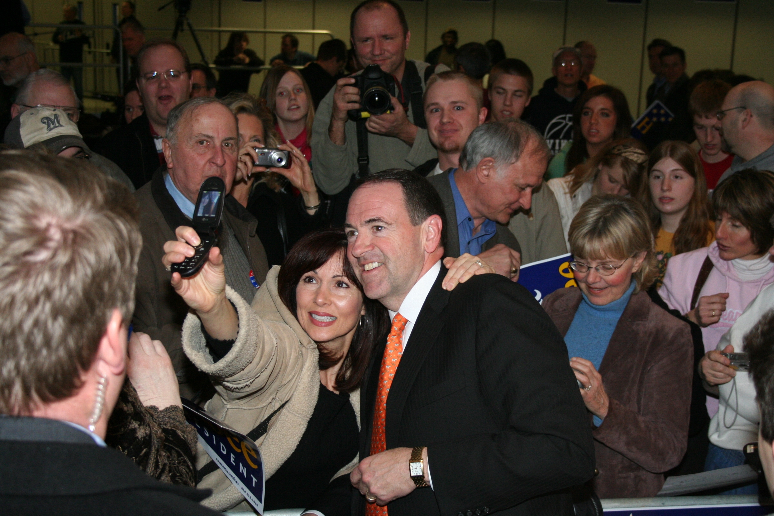 Appleton, Wis.